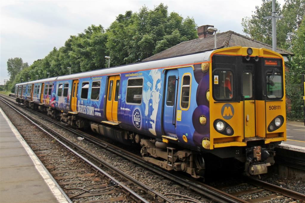 Beatles train, Hillside Railway Station